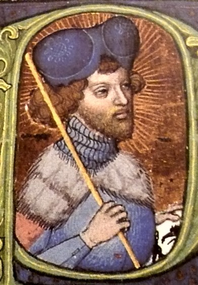 Wenceslaus IV, duke of Luxembourg, elector of Brandenburg